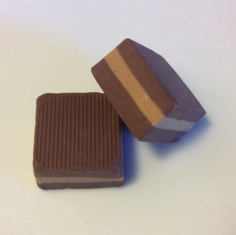 Two chocolates. Sorini Cremino combines milk chocolate with creamy hazelnuts.